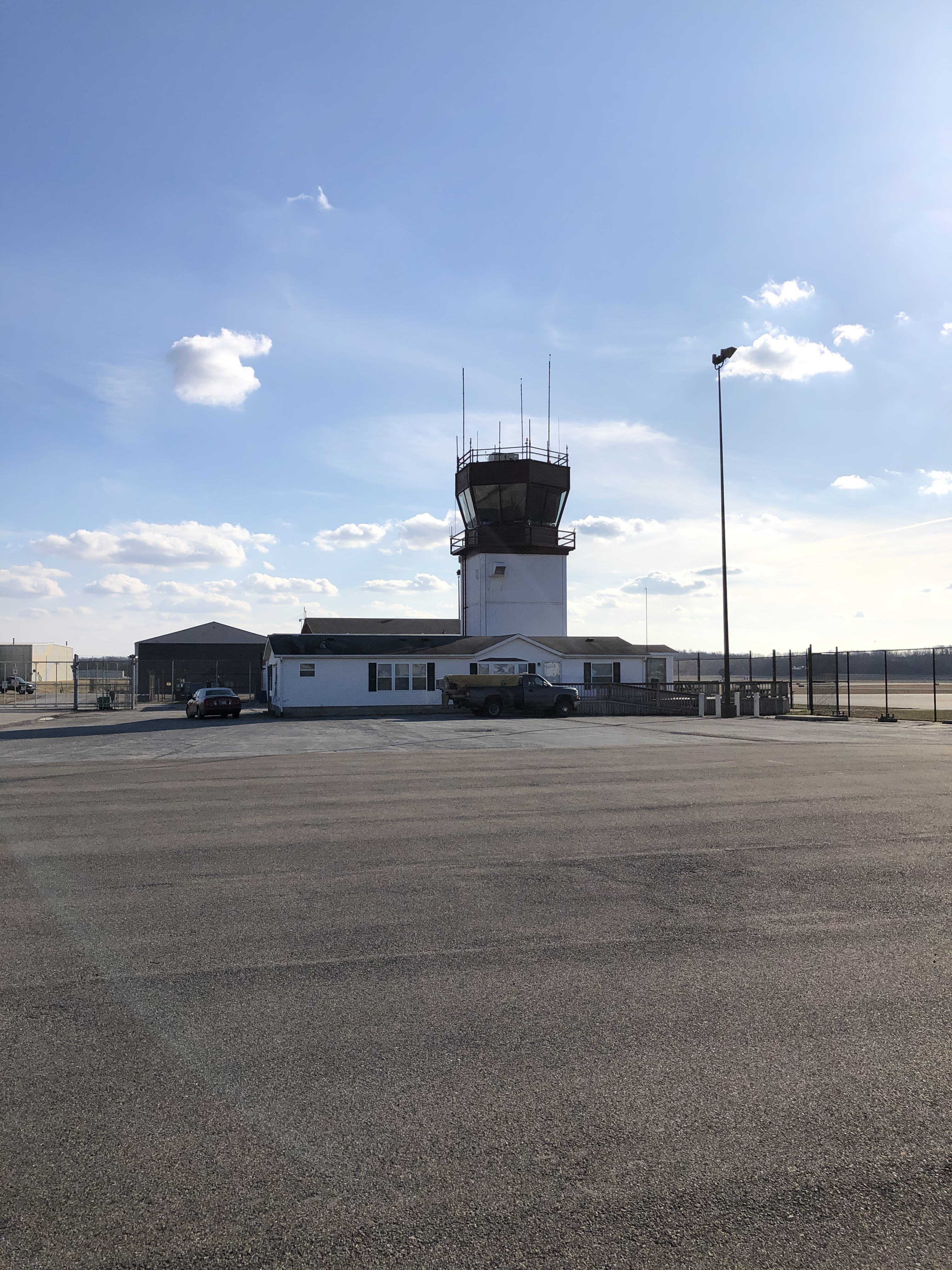 Air Traffic Control Tower at Monroe County Airport